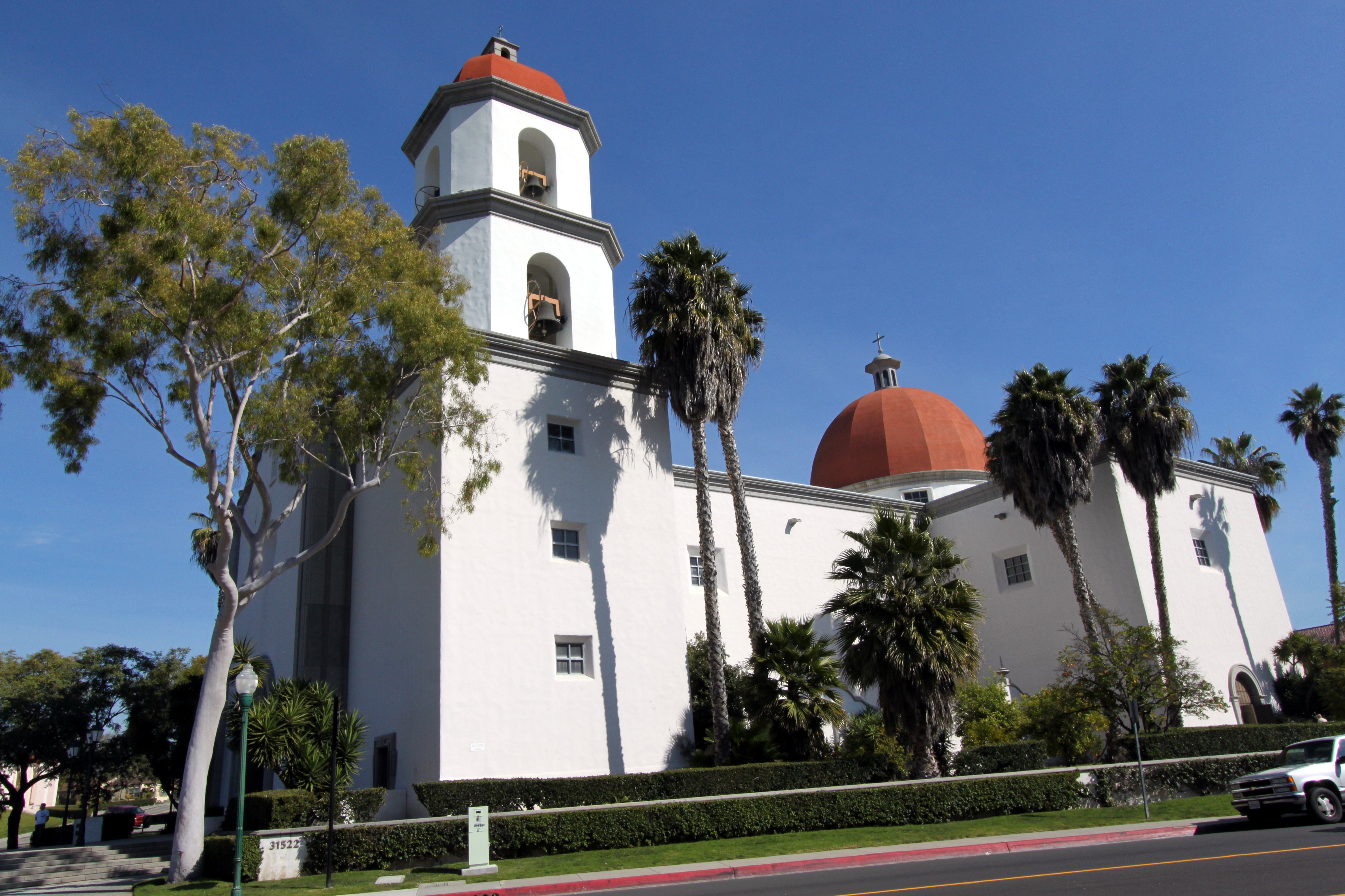 Basilica San Juan Capistrano, California, United States.